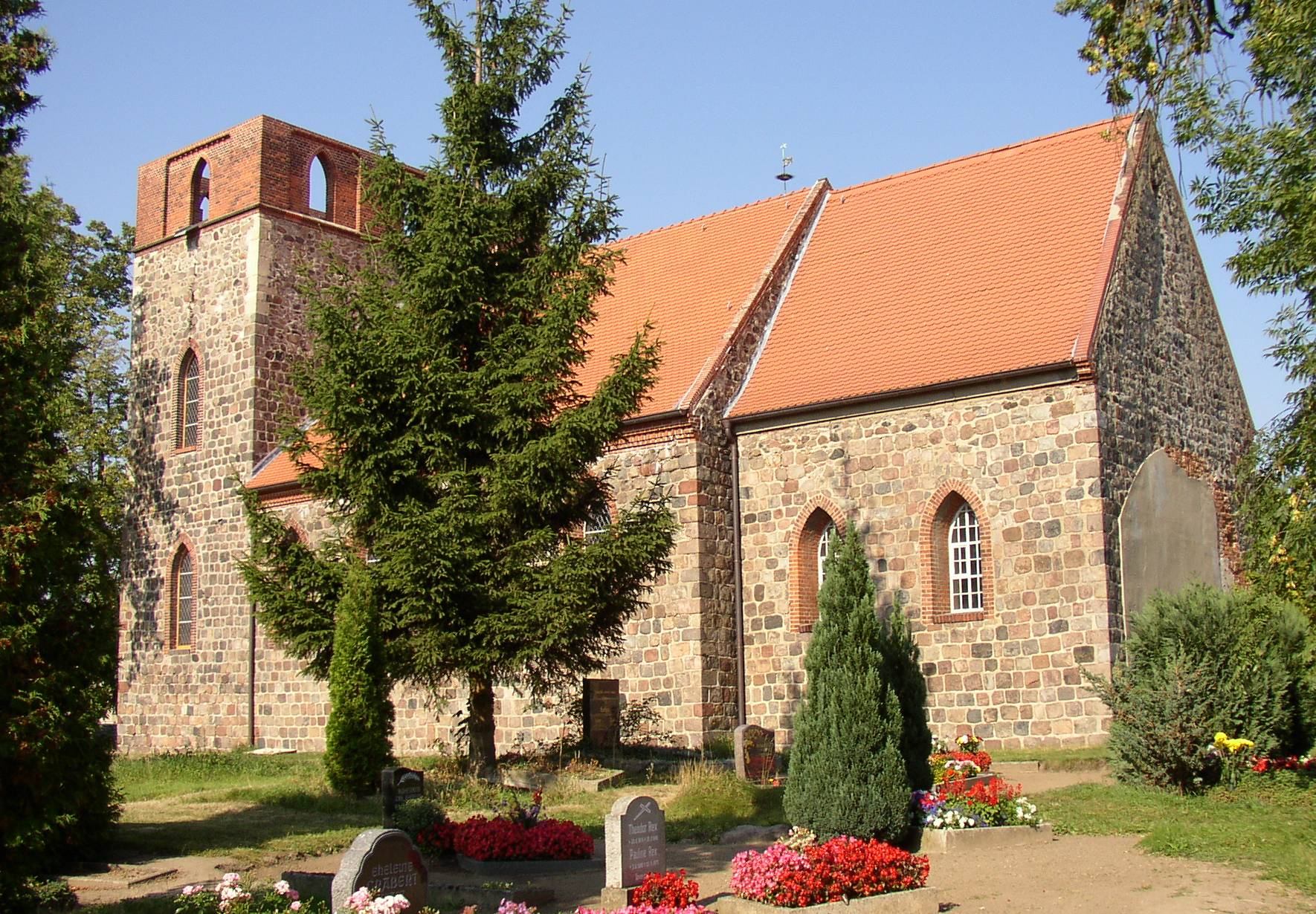 South-eastern view of Wesendahl church, Altlandsberg municipality, Märkisch-Oderland district, Brandenburg state, Germany